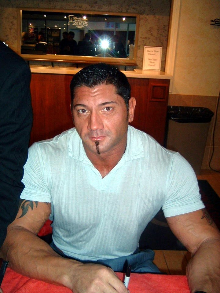 An image of Batista